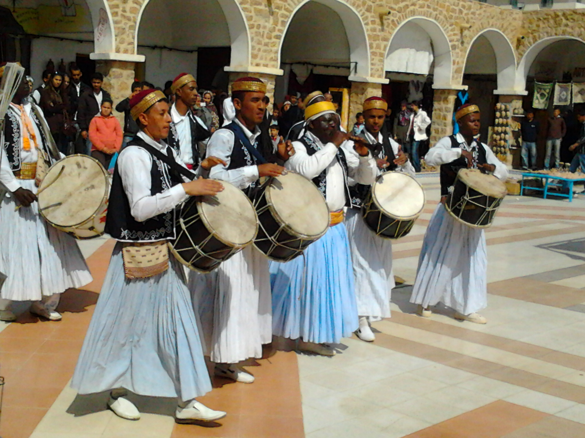 Band consists of drummers and Zukrah player in the old souk of Tataouine, on the occasion of Tataouine's festival.